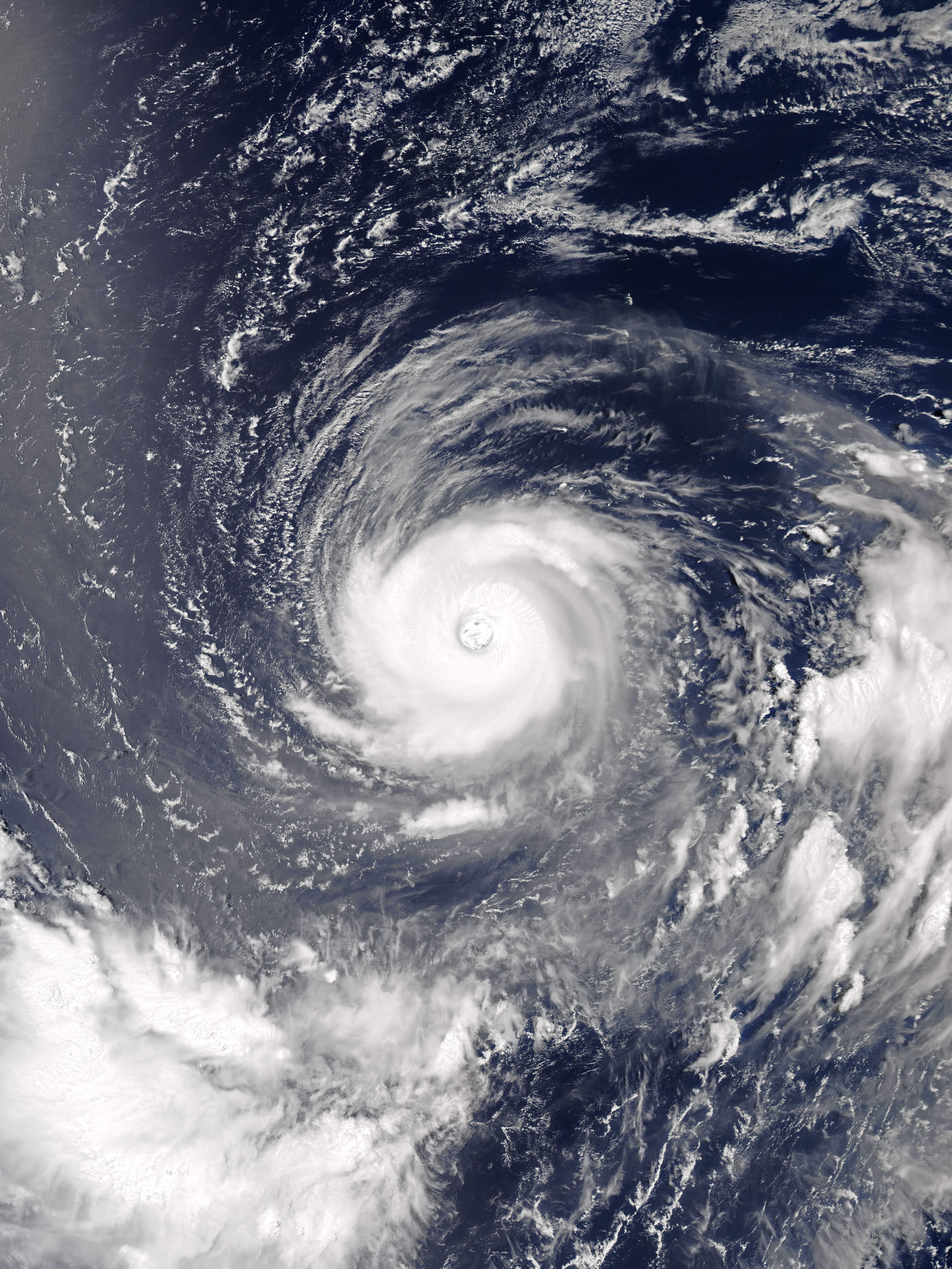 Typhoon Noru at peak intensity and displaying annular characteristics on July 31, 2017, located to the southwest of Iwo To.